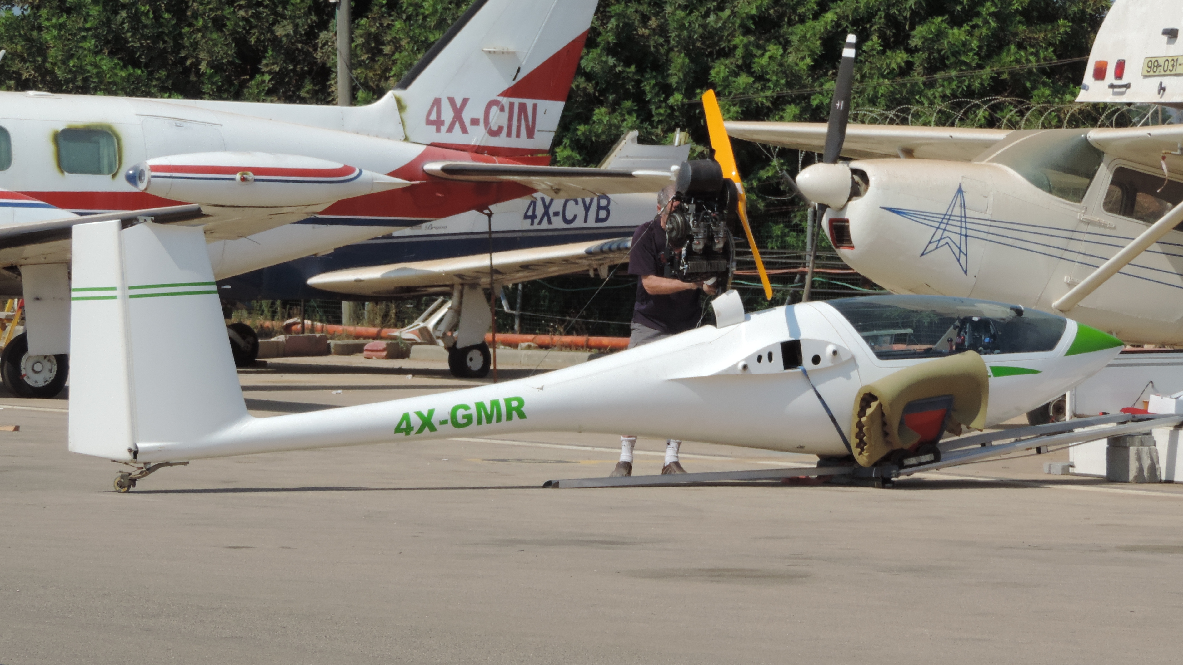 4X-GMR at Herzliya airport. A rare sight at this airport.